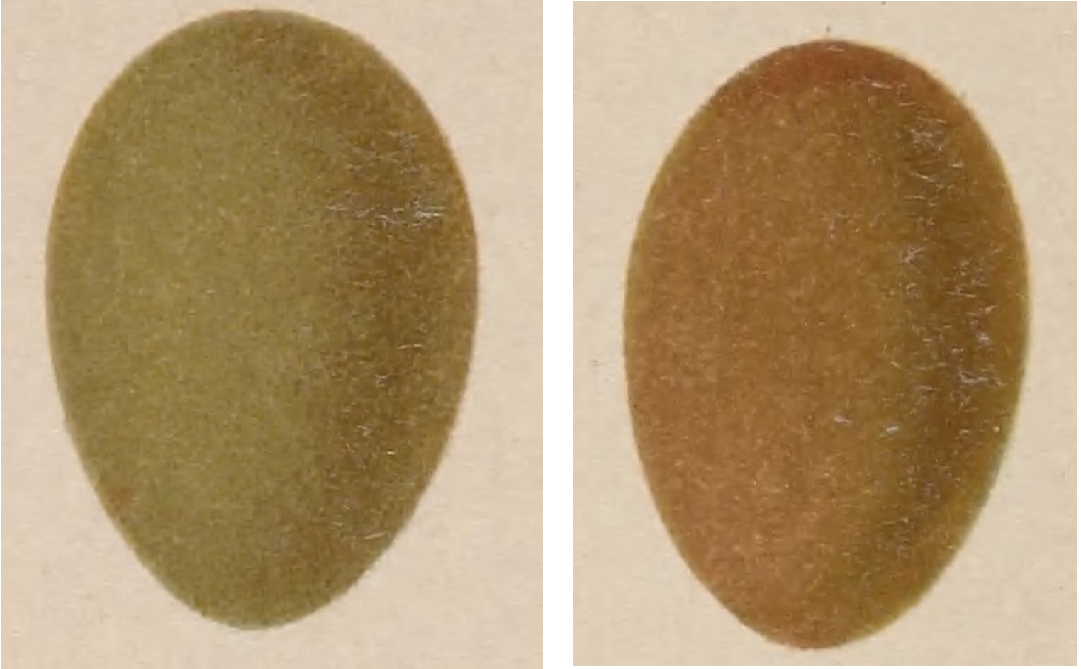 Luscinia luscinia eggs. Naumann